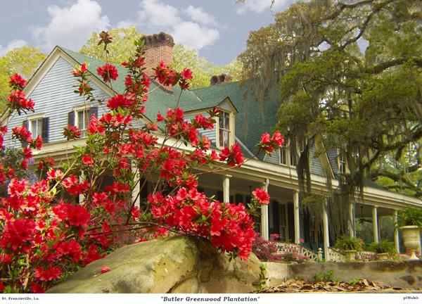 Old English gardens surround Butler Greenwood Plantation just north of St. Francisville, Louisiana